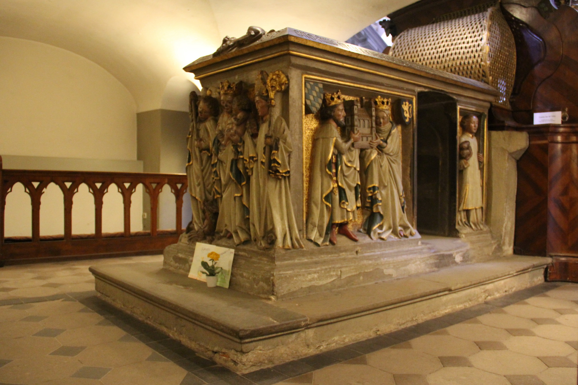 Tomb of Saint Otto of Bamberg Michaelsberg Abbey Native nameKloster MichelsbergLocationBamberg, eee, GermanyCoordinates49° 53′ 37″ N, 10° 52′ 38″ E Established1015Authority control : Q555168 VIAF: 267690333 LCCN: nr90002797 GND: 16135818-4 WorldCat institution QS:P195,Q555168